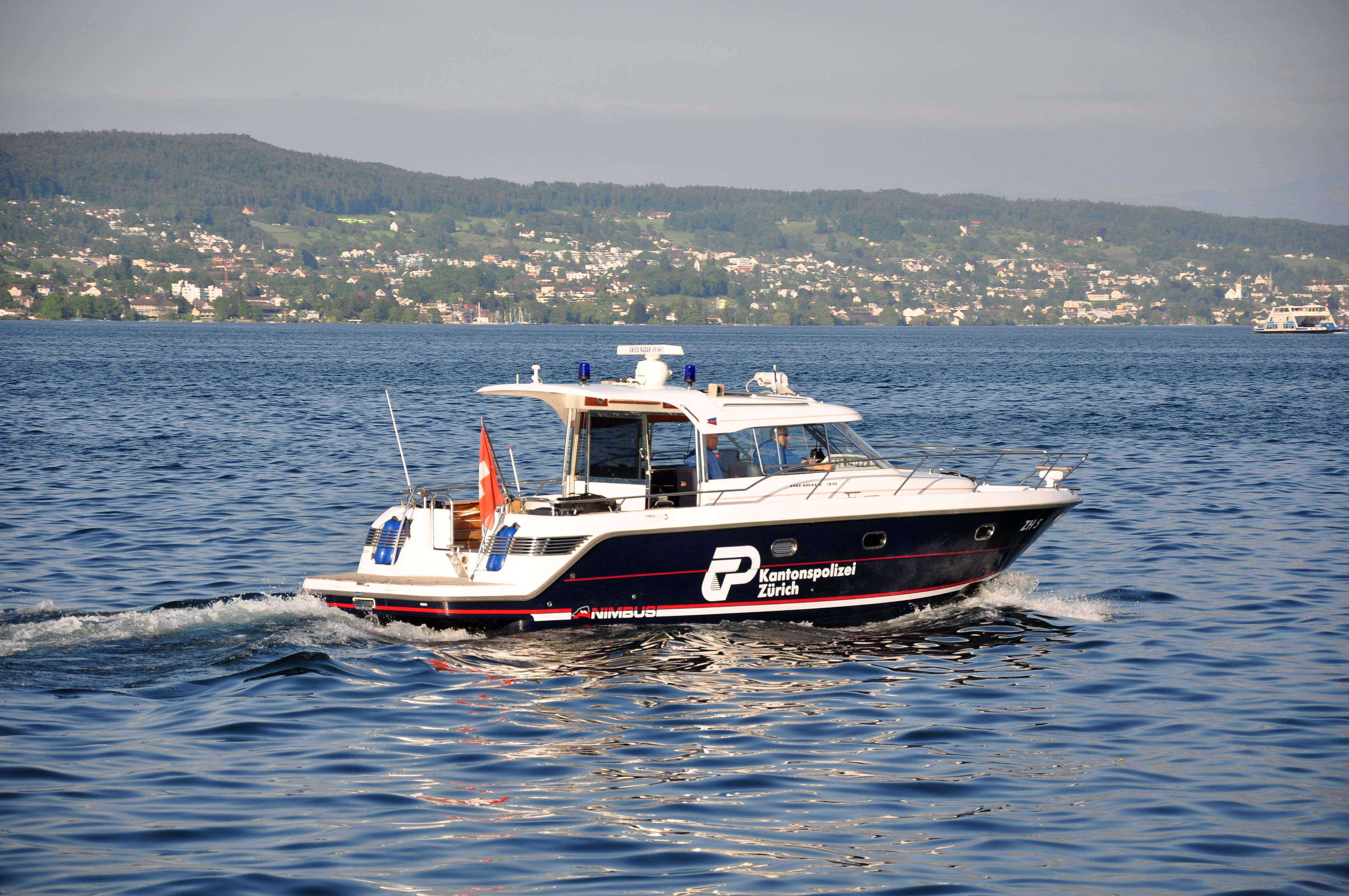 Kantonspolizei Zürich speedboat nearby Horgen (Switzerland), as seen from ZSG paddle steamship Stadt Zürich, Pfannenstiel in the background.